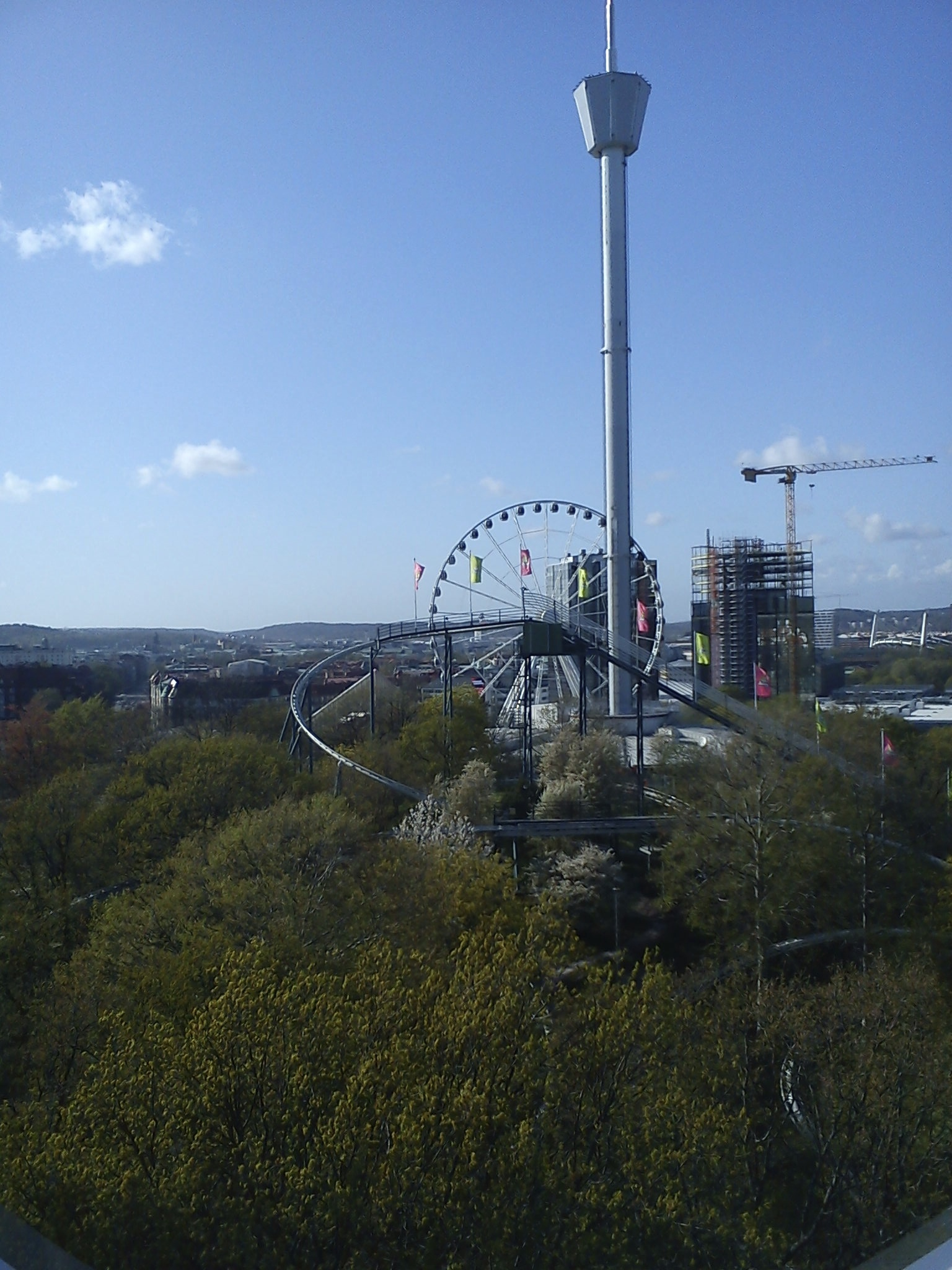 Liseberg